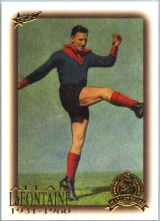 Photo of Allan La Fontaine taken before 1945